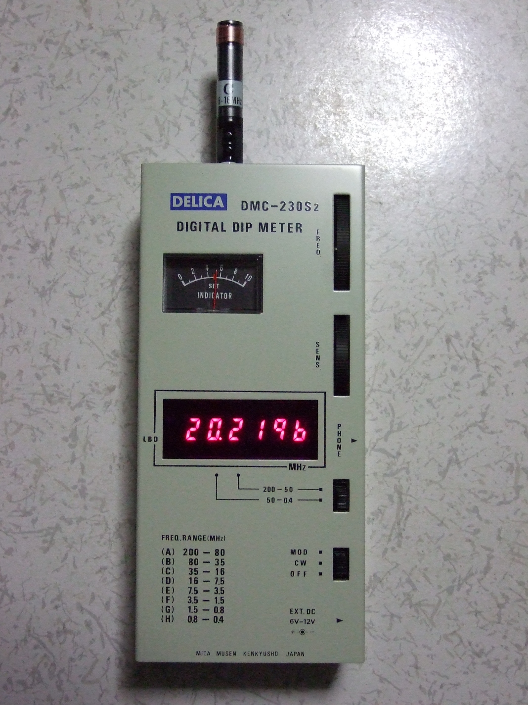 A dipmeter readying to measure. (Mitamusenkenkyūsho 三田無線研究所株式会社 DELICA DMC-230S2) The indicator indicates the SET location and is "not dipped".